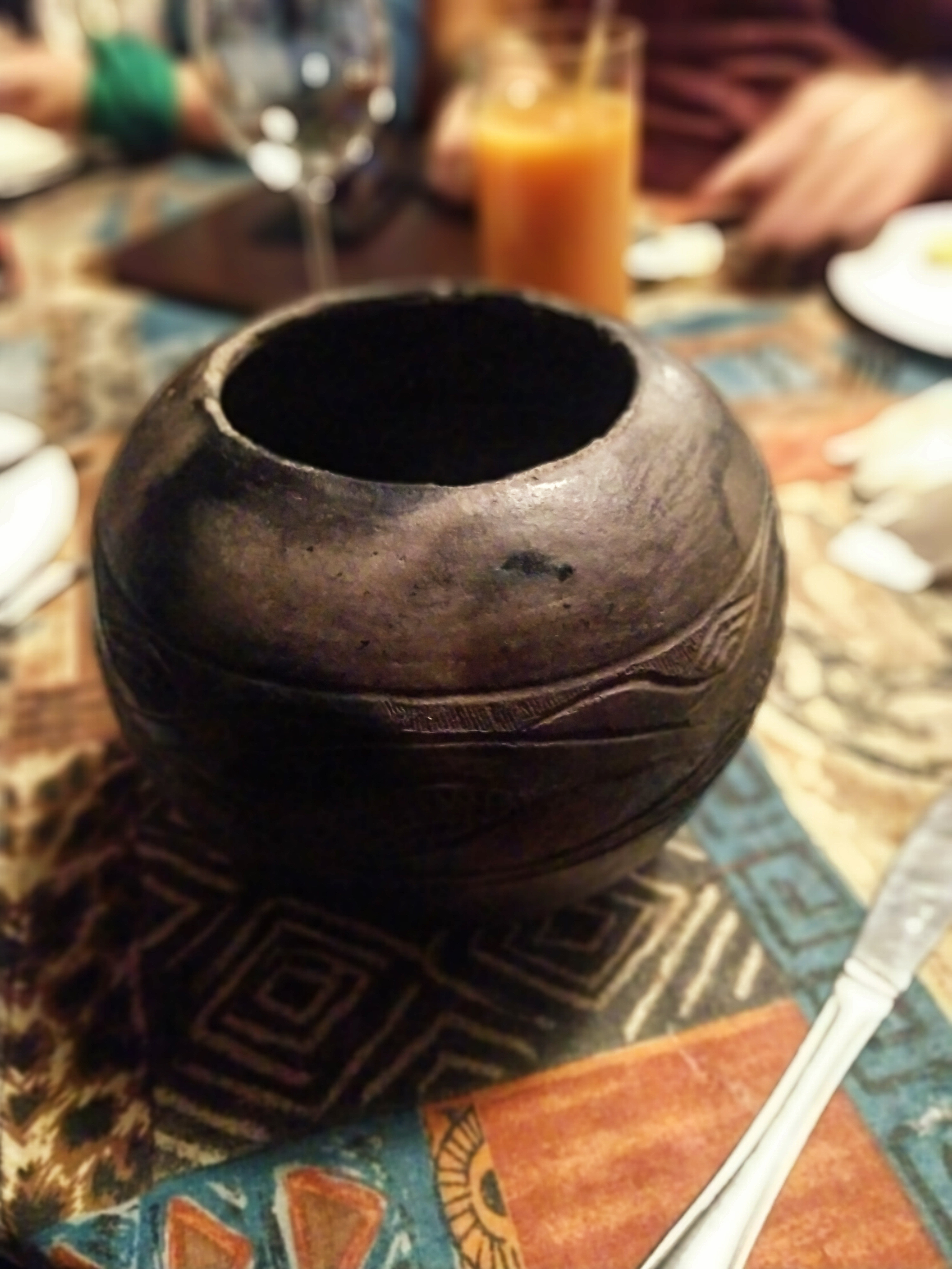 Umqombothi, southafrican traditional maize beer, served in an ukhamba, zulu beer vessel.